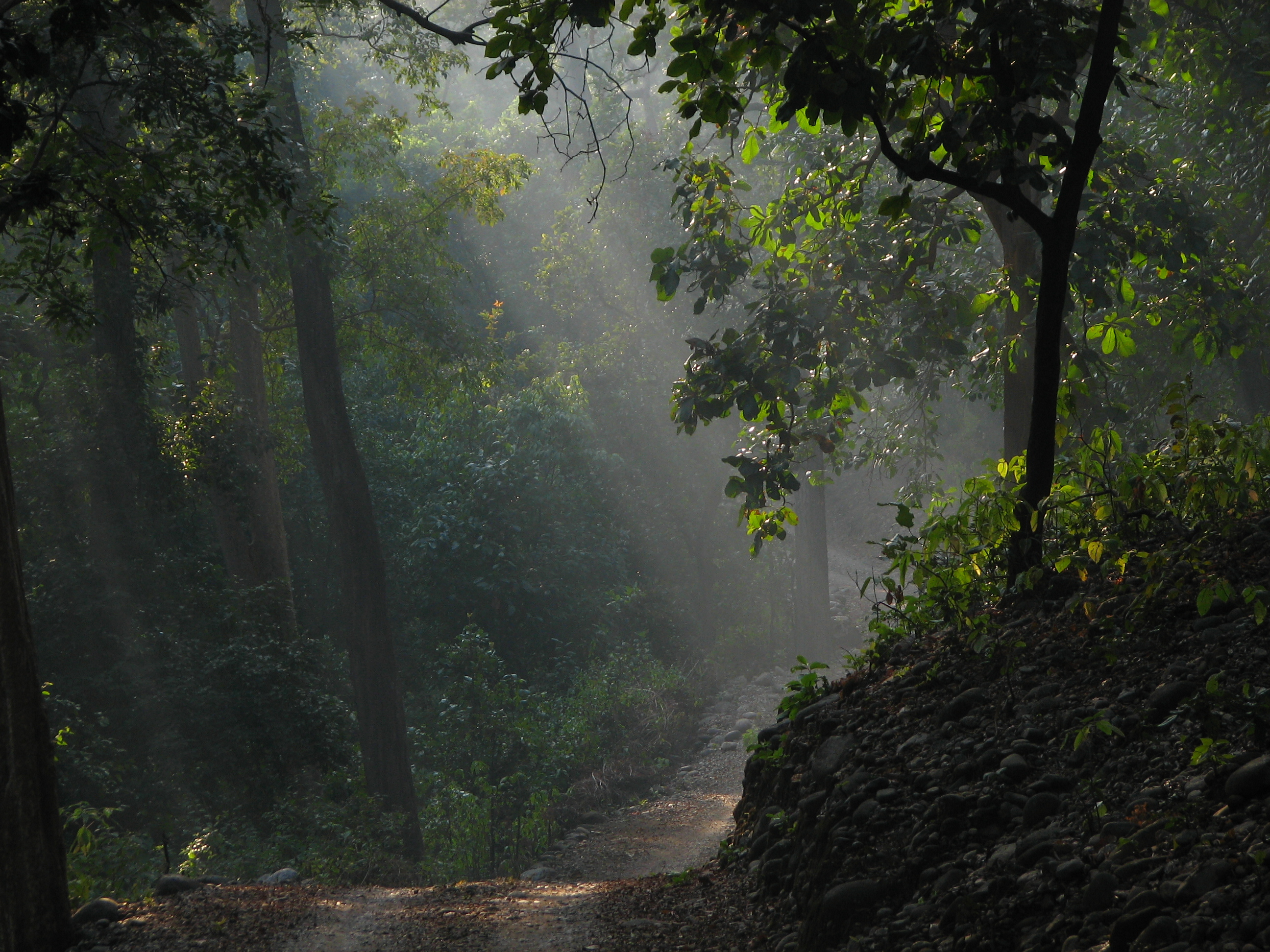 taken during our jeep safari at jim corbett national park during our vain search of sighting a tiger ...